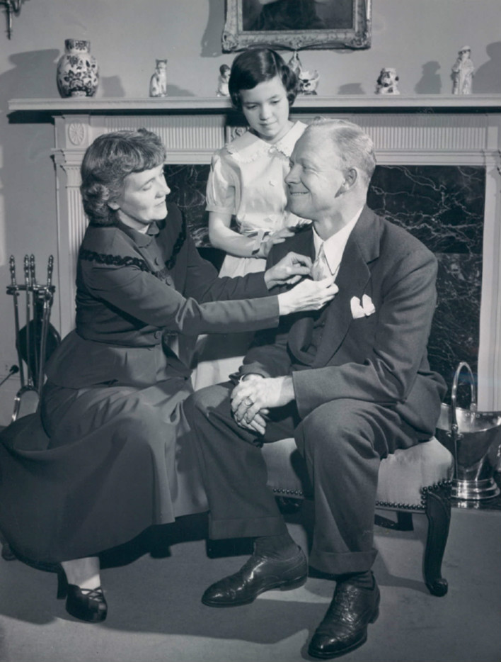 Publicity photo of sportscaster Red Barber with wife Lylah and daughter Sarah, 1950.